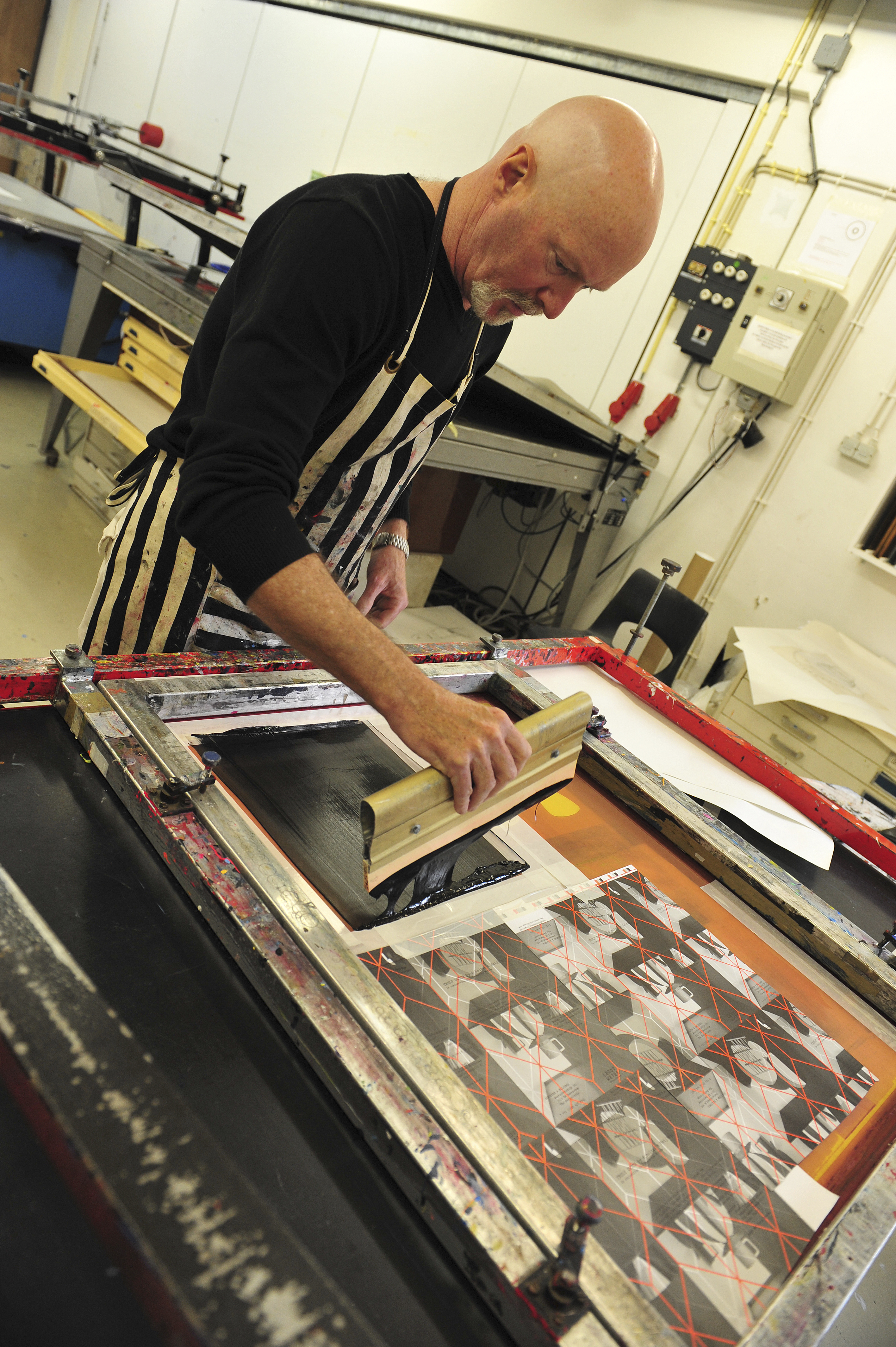 Tom Liesegang